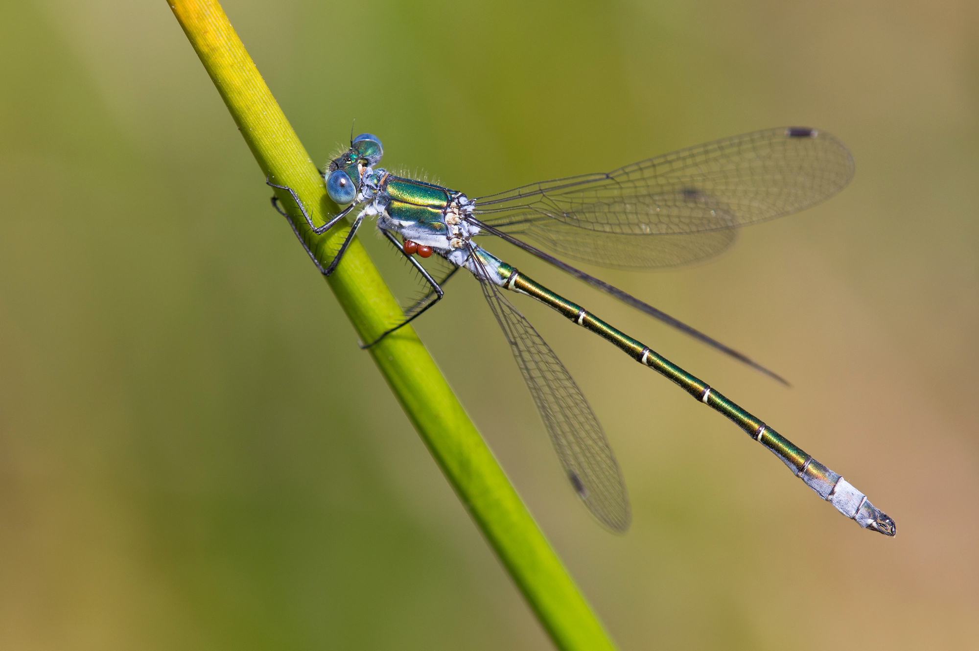 Male specimen of the Robust Spreadwing / Scarce Emerald Damselfly (Lestes dryas) on rush stalk. Note the infestation with mites (red "balls", according to literature probably larvae of Arrenurus papillator).